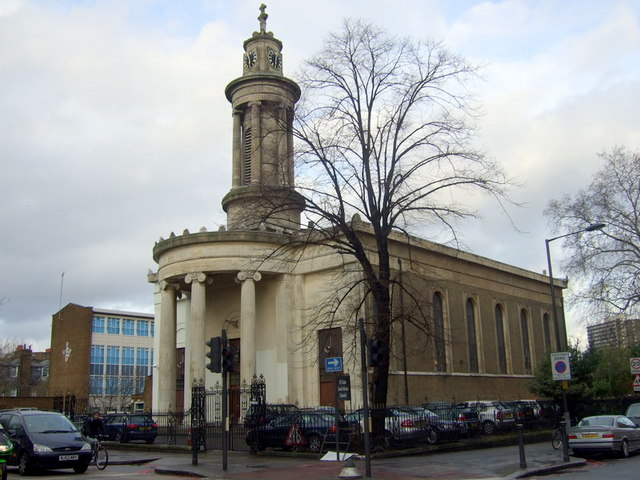 All Saints' Greek Orthodox Cathedral, Pratt Street Originally an Anglican church known as Camden Chapel and then as St Stephens before acquiring its present name. It was built in the 1820's and was taken over by the local Orthodox population in 1948, this being one of the main Greek Cypriot areas in London. It is a Grade One Listed Building although the tower has been deemed disproportionately narrow. Church of England primary school to the north.